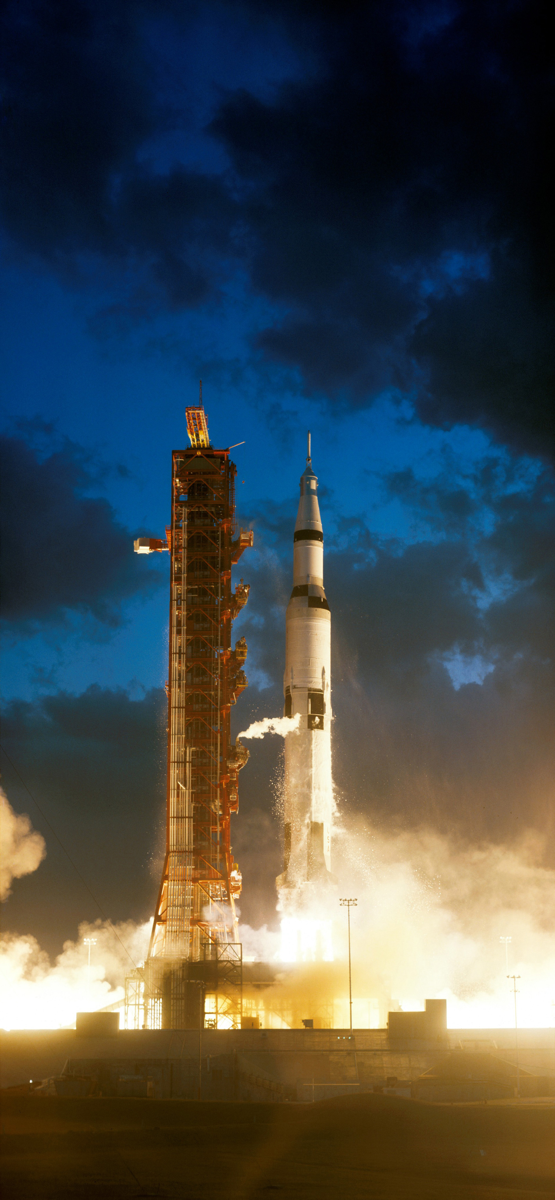 The Apollo 4 unmanned mission lifts off from launch pad 39A at the Kennedy Space Center. This would be the first flight for the enormous Saturn V rocket that would eventually take humans to the Moon.